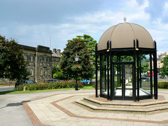 Harrogate Borough Council offices, Harrogate The council offices are within the buildings at the left. The dome in the foreground contains an 1861 sculpture of Cupid and Psyche by Giovanni Maria Benzoni.